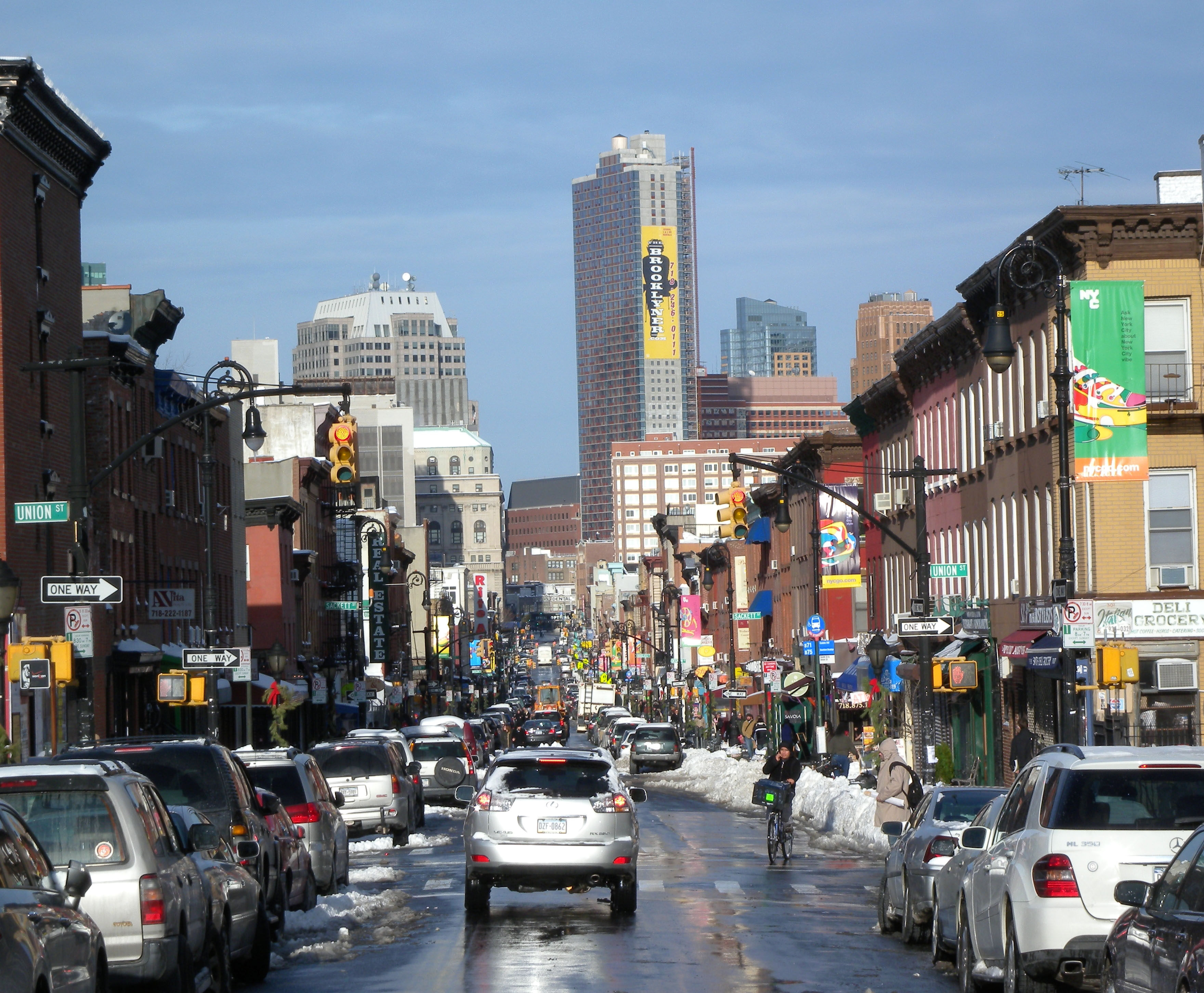 Looking north, maximum zoom, across Union Street and along Smith Street after snowfall.